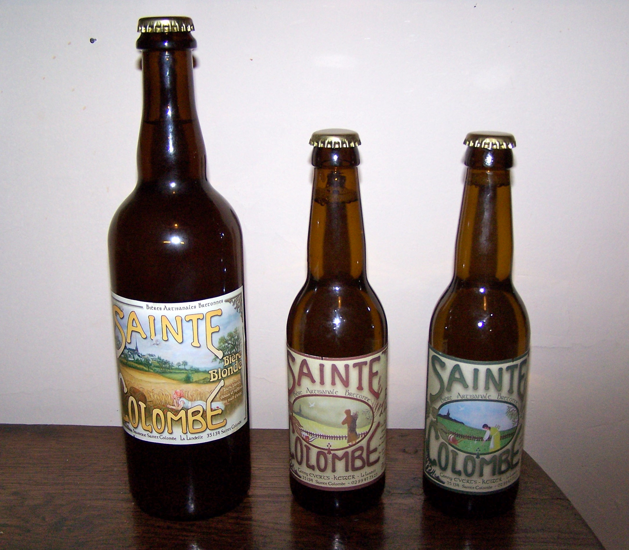 Three types (blonde, ambrée, bière d'hiver) of Sainte-Colombe beers from Brittany